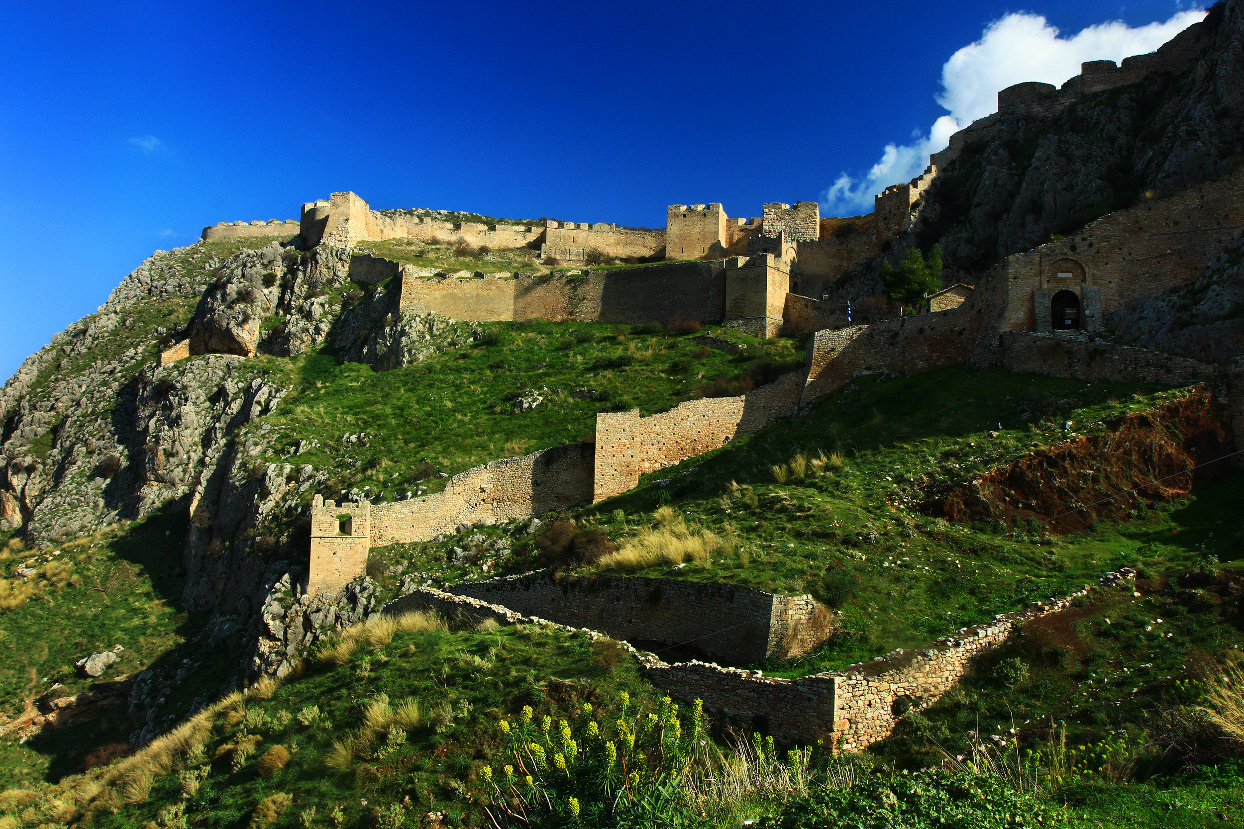 This is a photography of Natura 2000 protected area with ID GR2530003